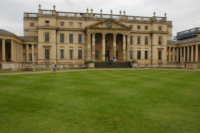 Stowe House The north portico and north front of Stowe House. The north front of Stowe House was restored in 2000-02.